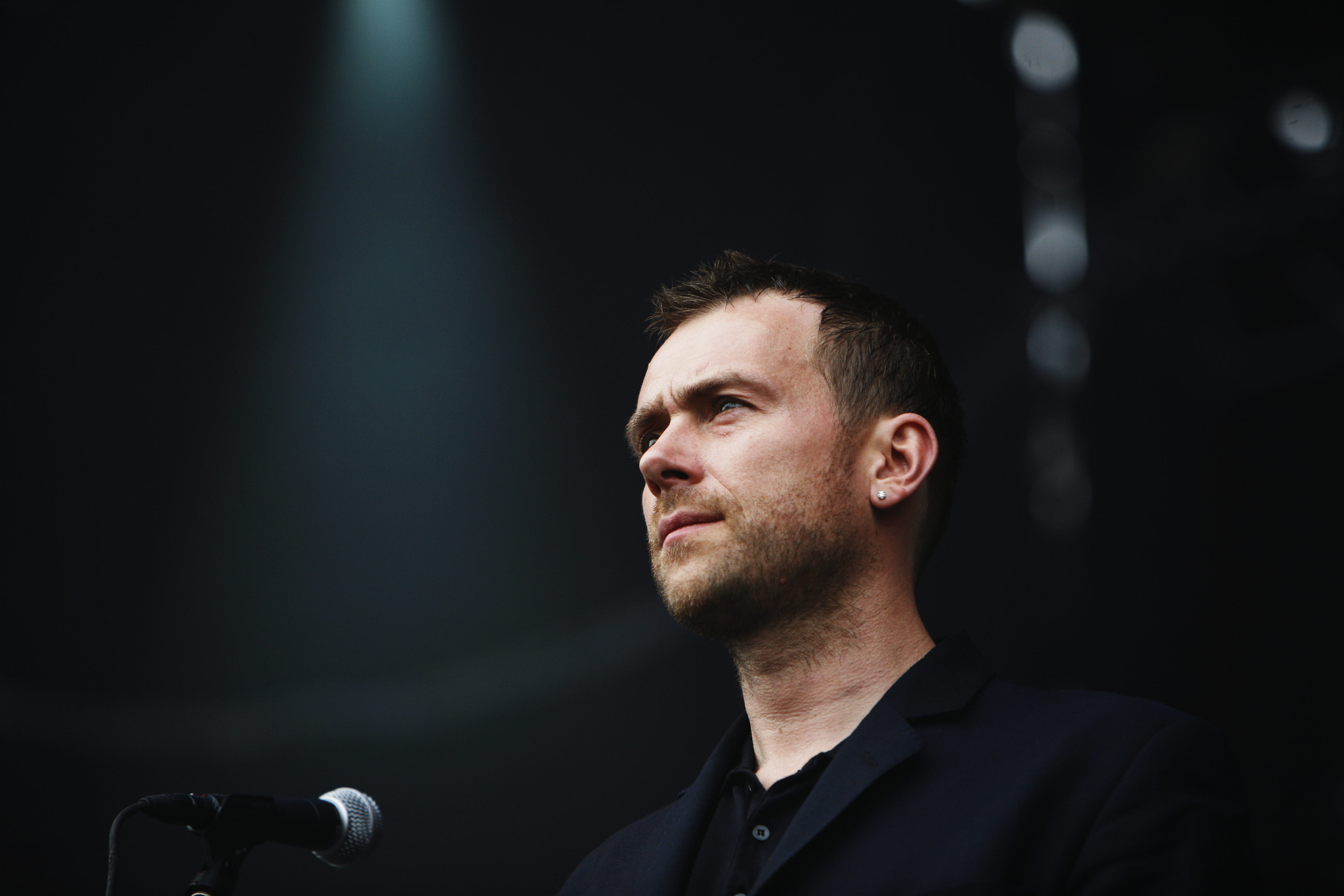 Damon Albarn at the Eurockéennes of 2007